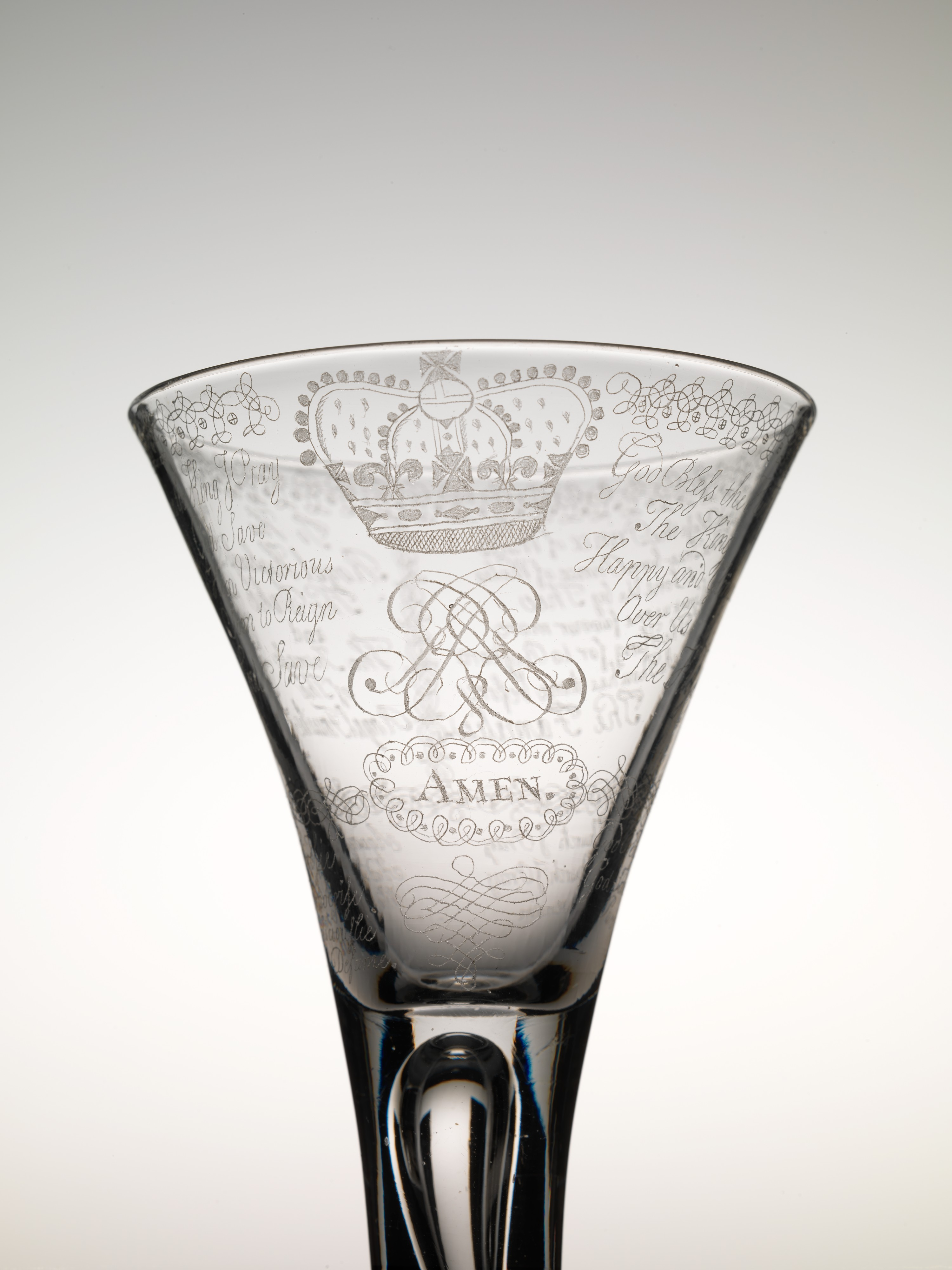 British; Wineglass; Glass